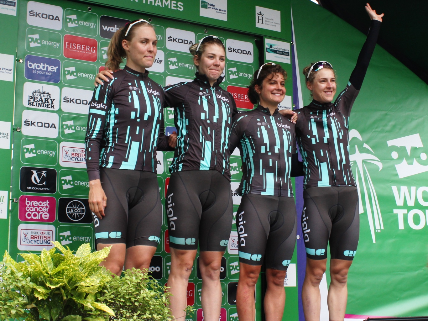 The Bigla team at the start of stage 3 of the 2019 Women's Tour. Although teams should be six people they only had four riders available: Elizabeth Banks, Martina Alzini, Julie Leth and Leah Thomas.